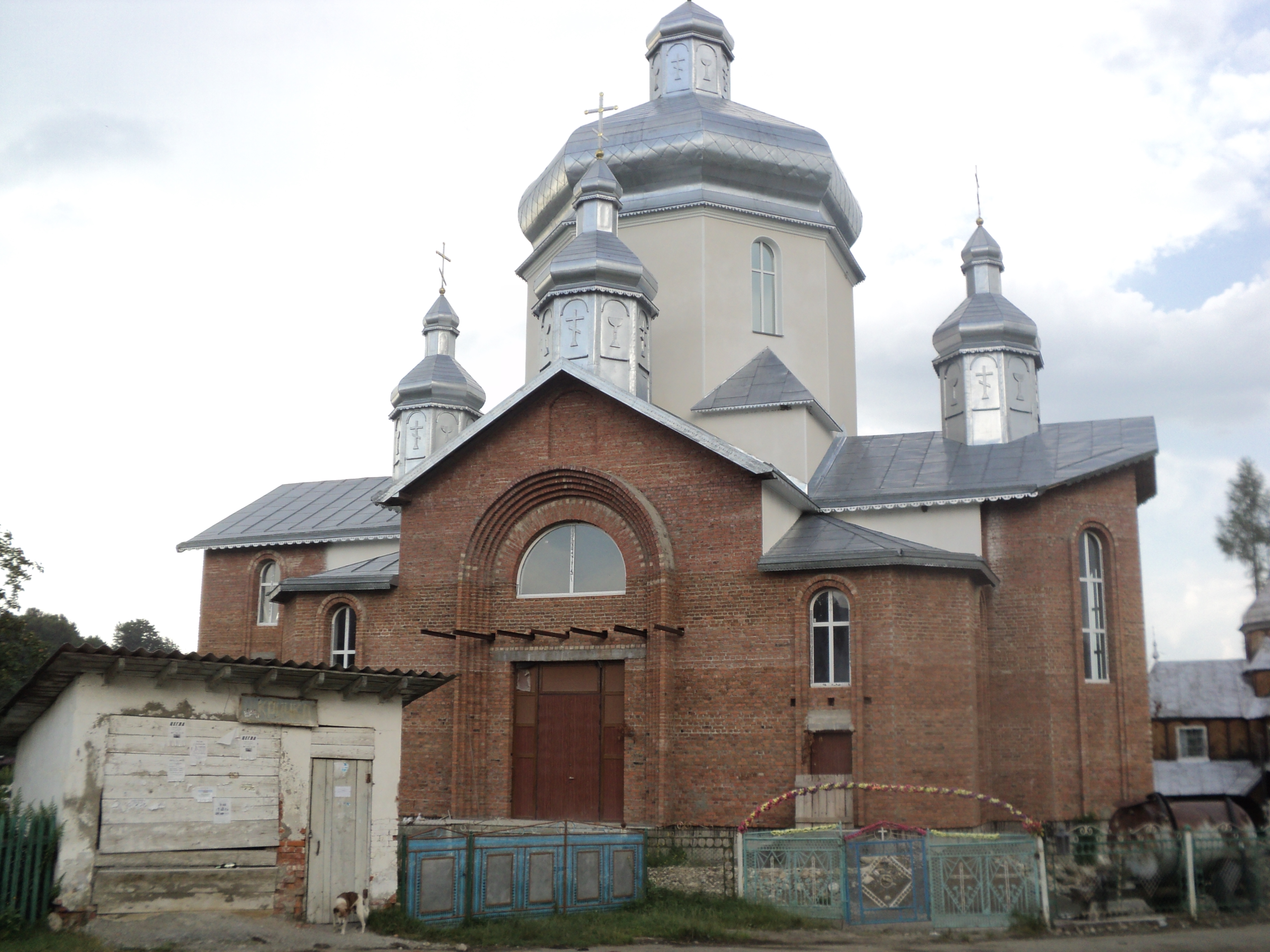 The church in Krychka